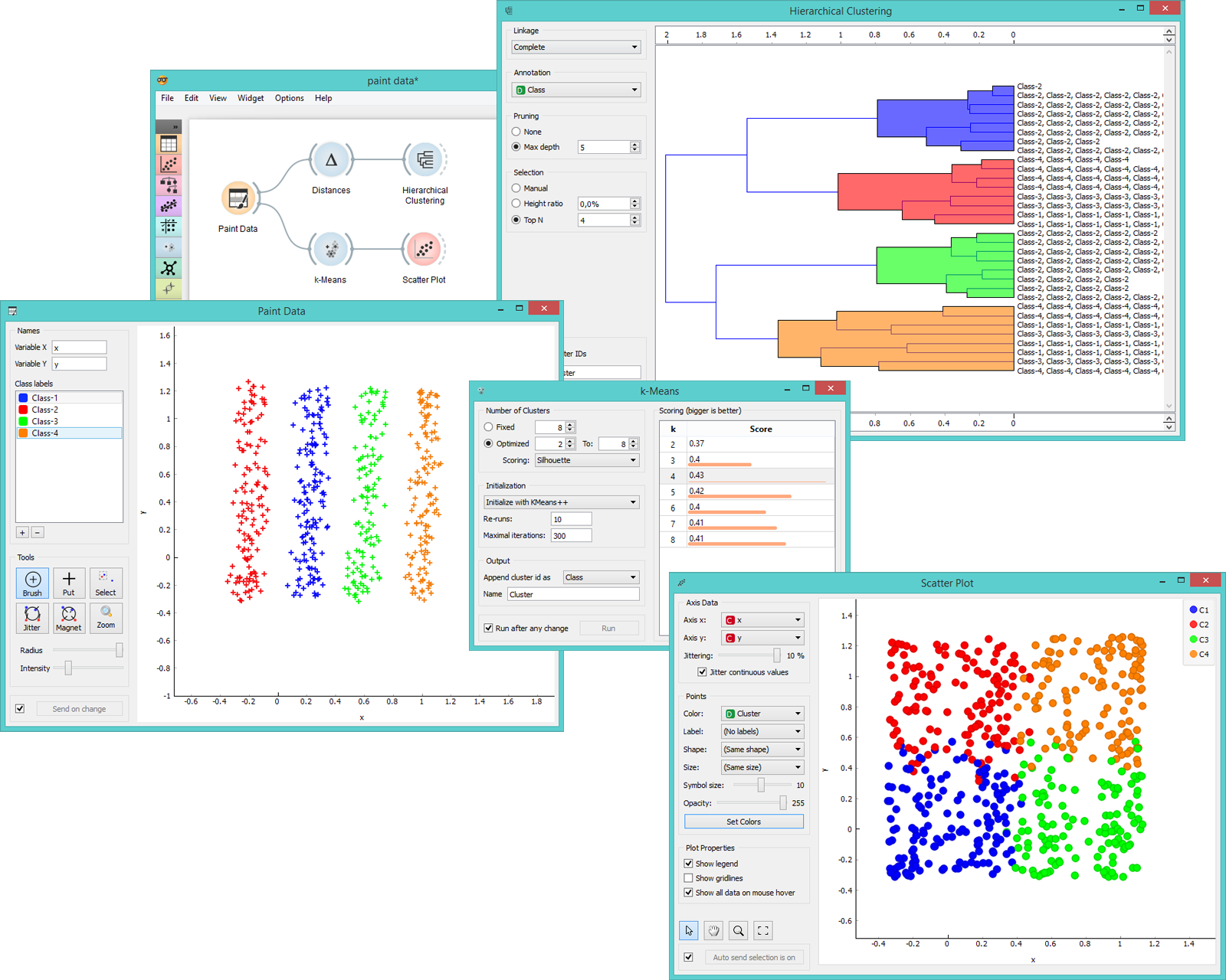 Paint Data widget in combination with Hierarchical Clustering and k-Means.